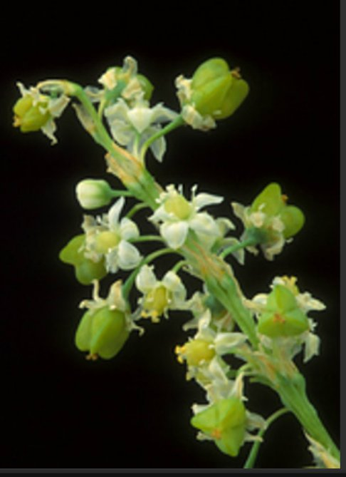 Britton's beargrass, found only in the dry, scrub-covered ridges and sand hills of central Florida, is dependent upon periodic fires to reduce competition from other plants.